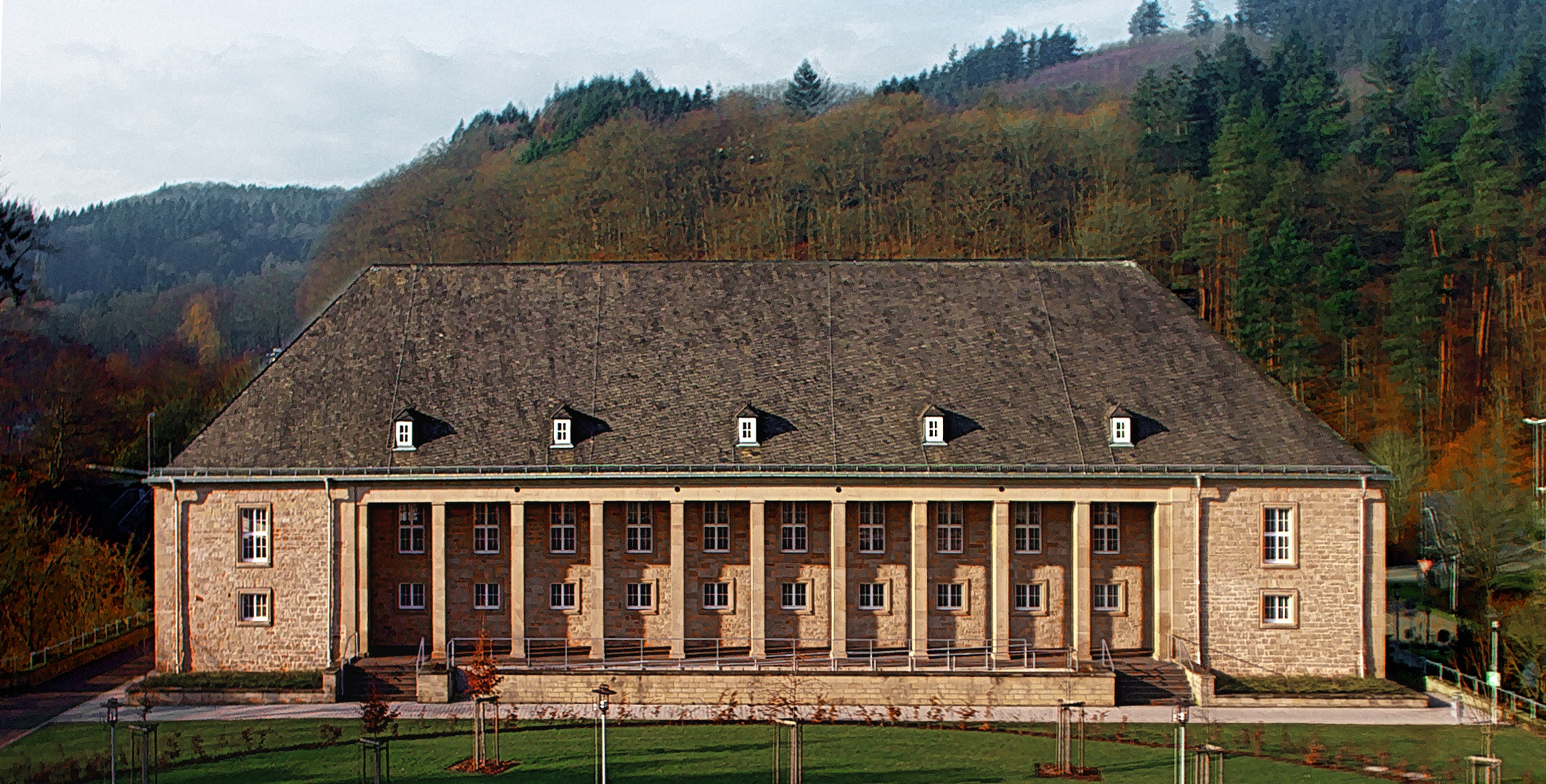 University of applied sciences Trier: Gym (from about 1940)